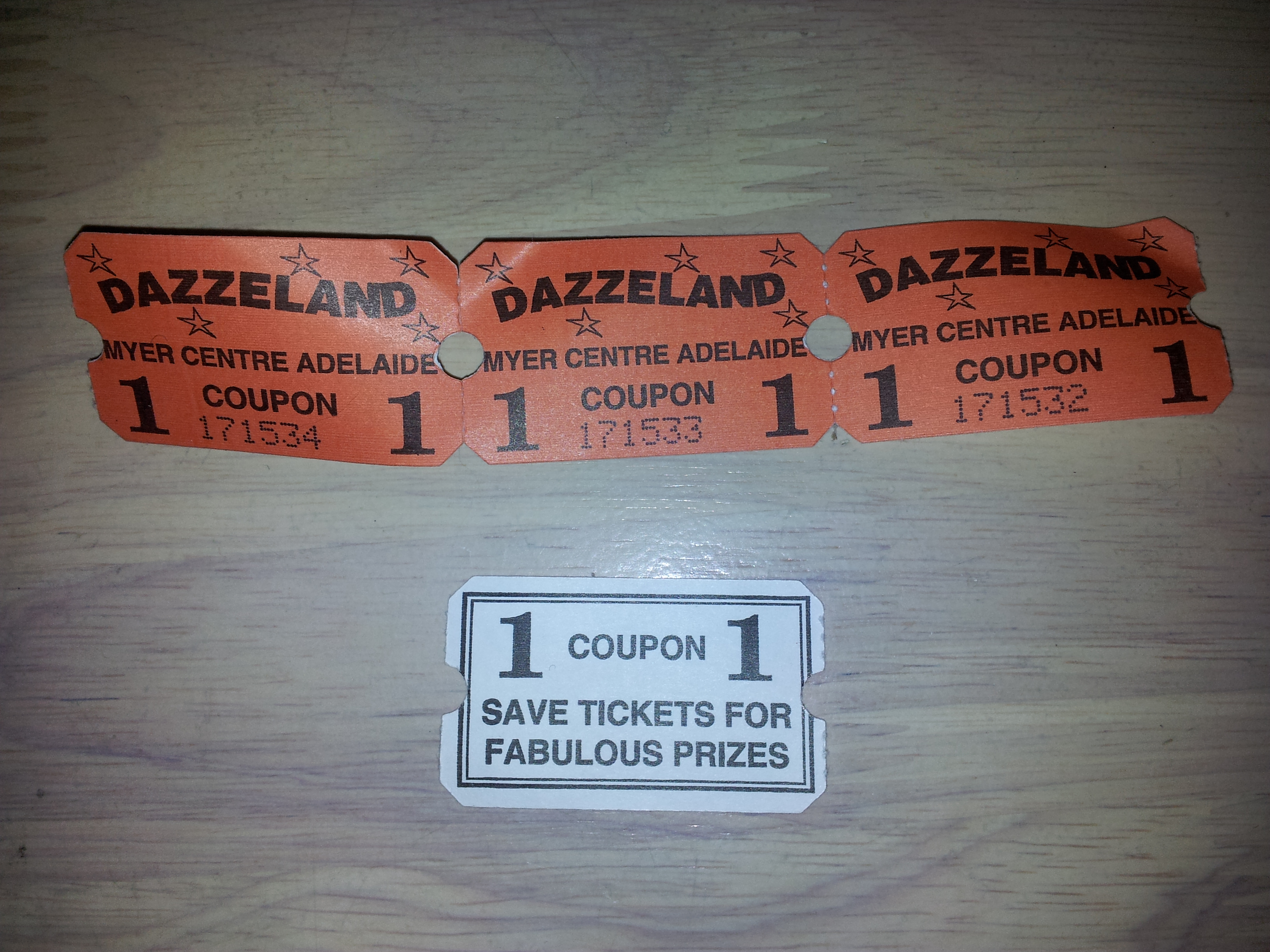 Tickets issued for Dazzeland games that could be redeemed for prizes circa 1992.